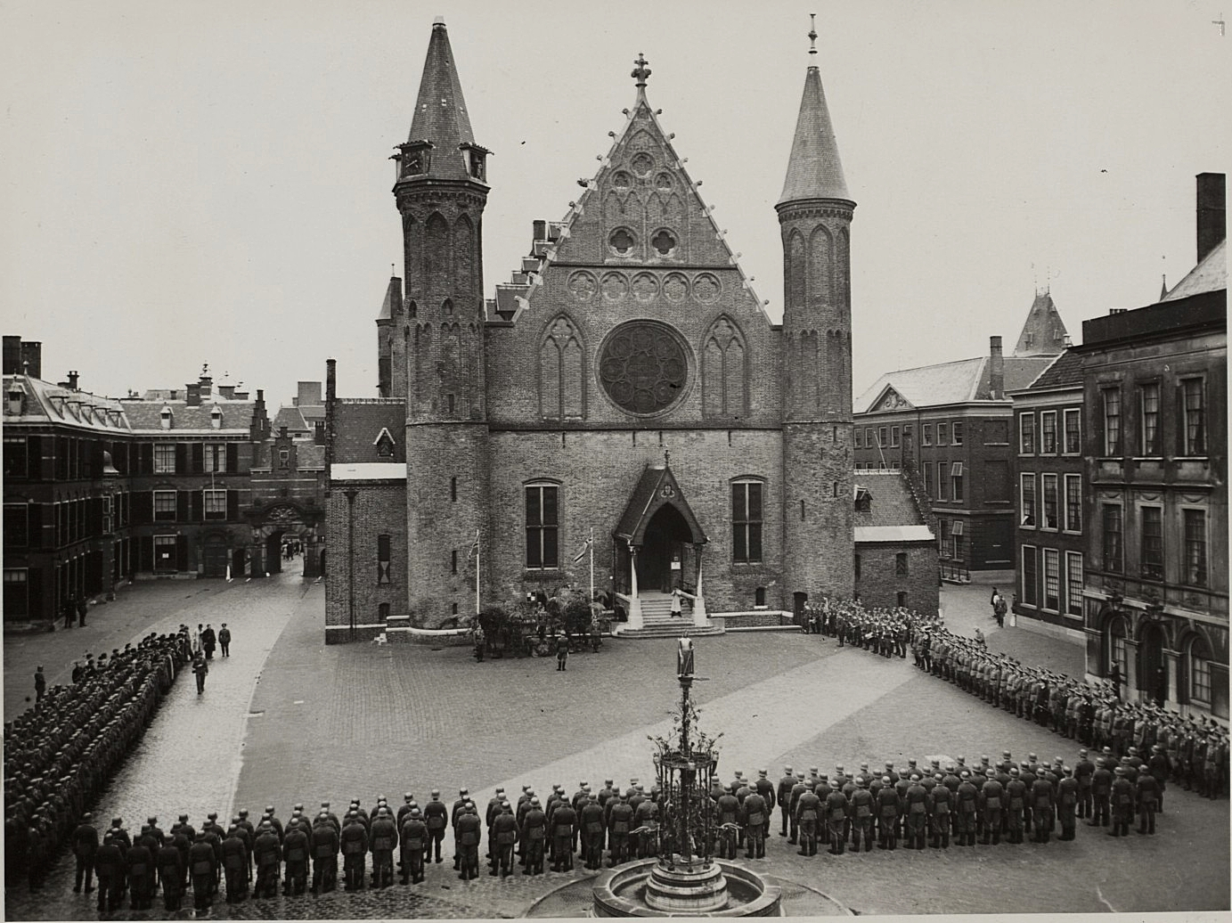 German troops at the Inner Court (Binnenhof), The Hague, May 1940, after occupying the Netherlands.